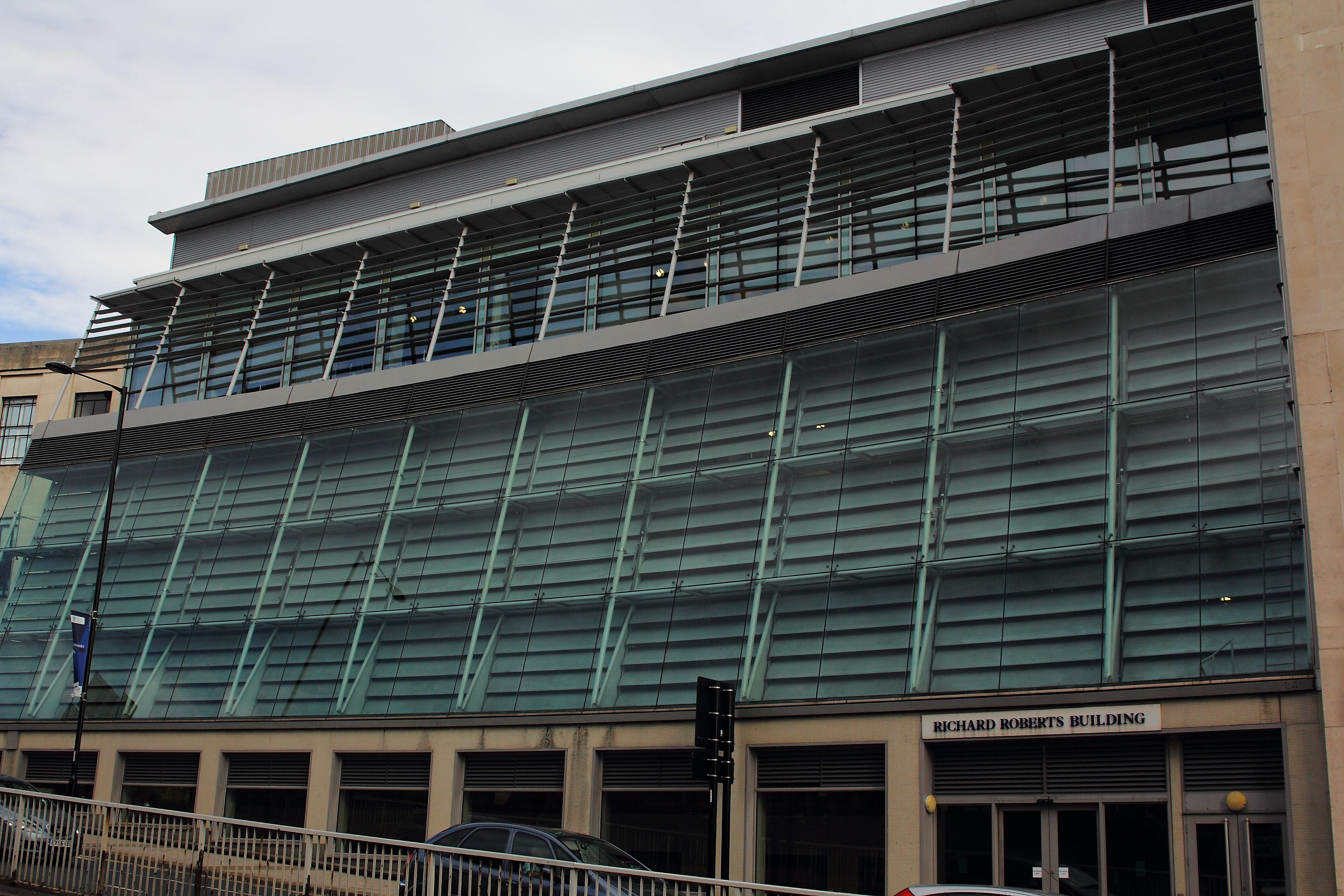 Shefunirichardroberts